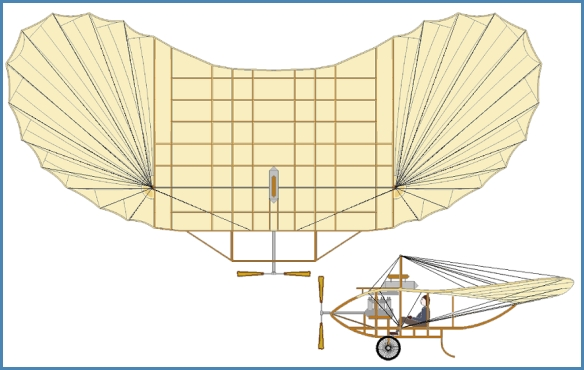 Etrich No1